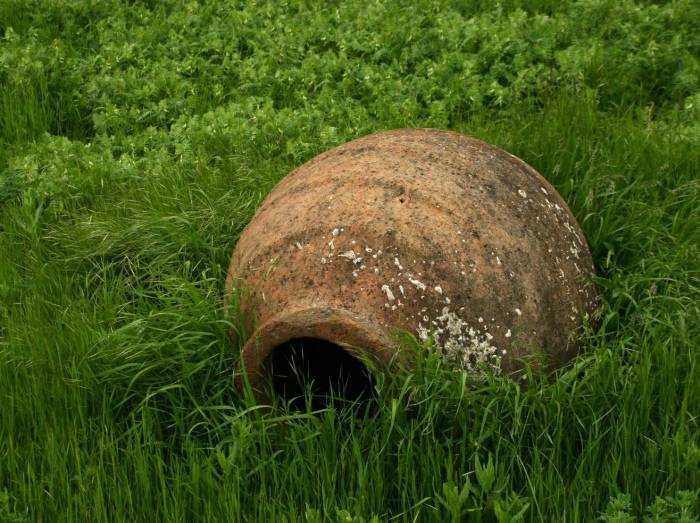 Georgian „Kvevri“